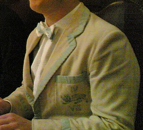 Cambridge University Half Blue blazer - specifically, the Cambridge University Rifle Association 1st VIII / 1st IV Half Blue blazer